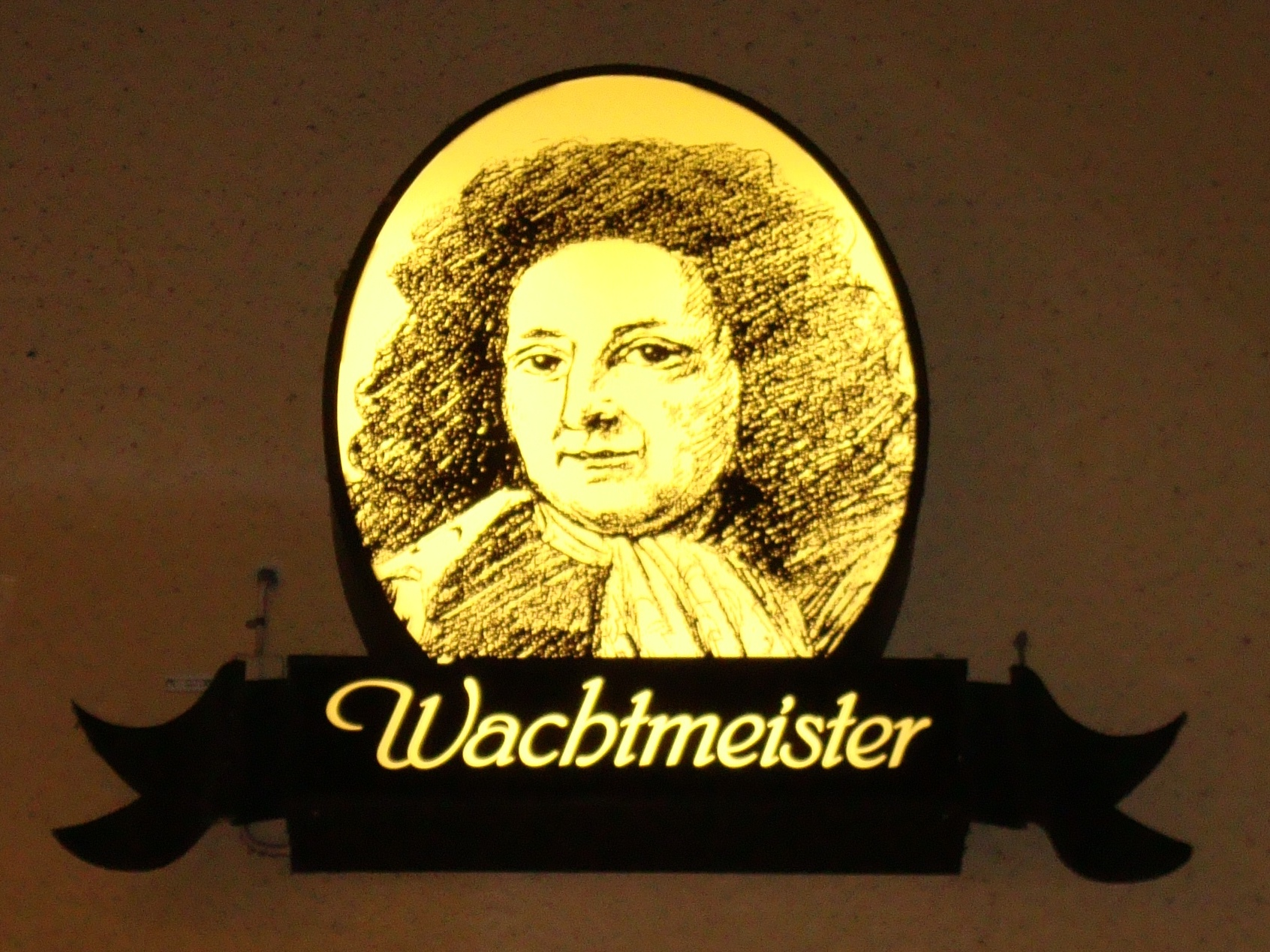 Wachtmeister